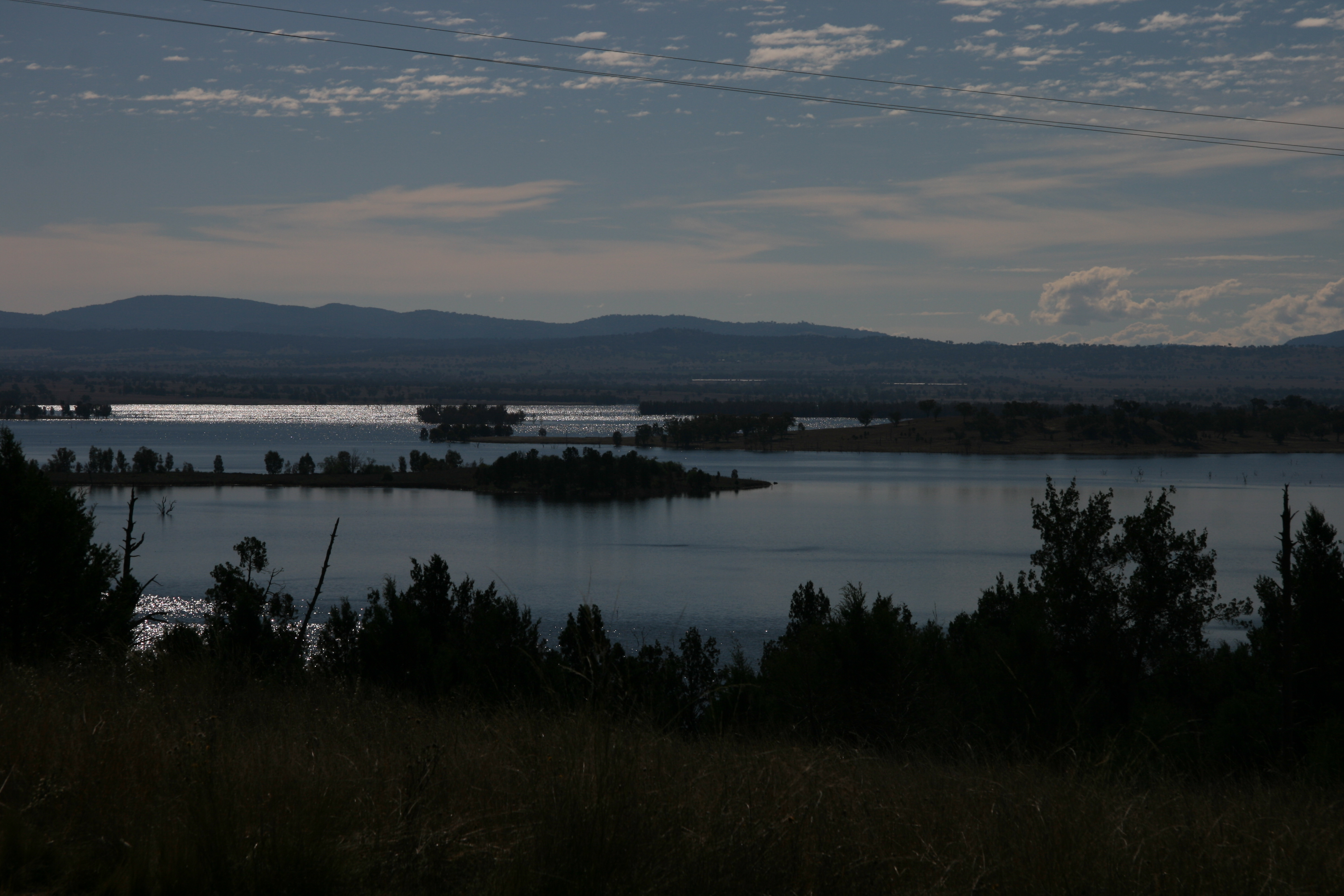 Lake Keepit, northern NSW between Tamworth and Gunnedah